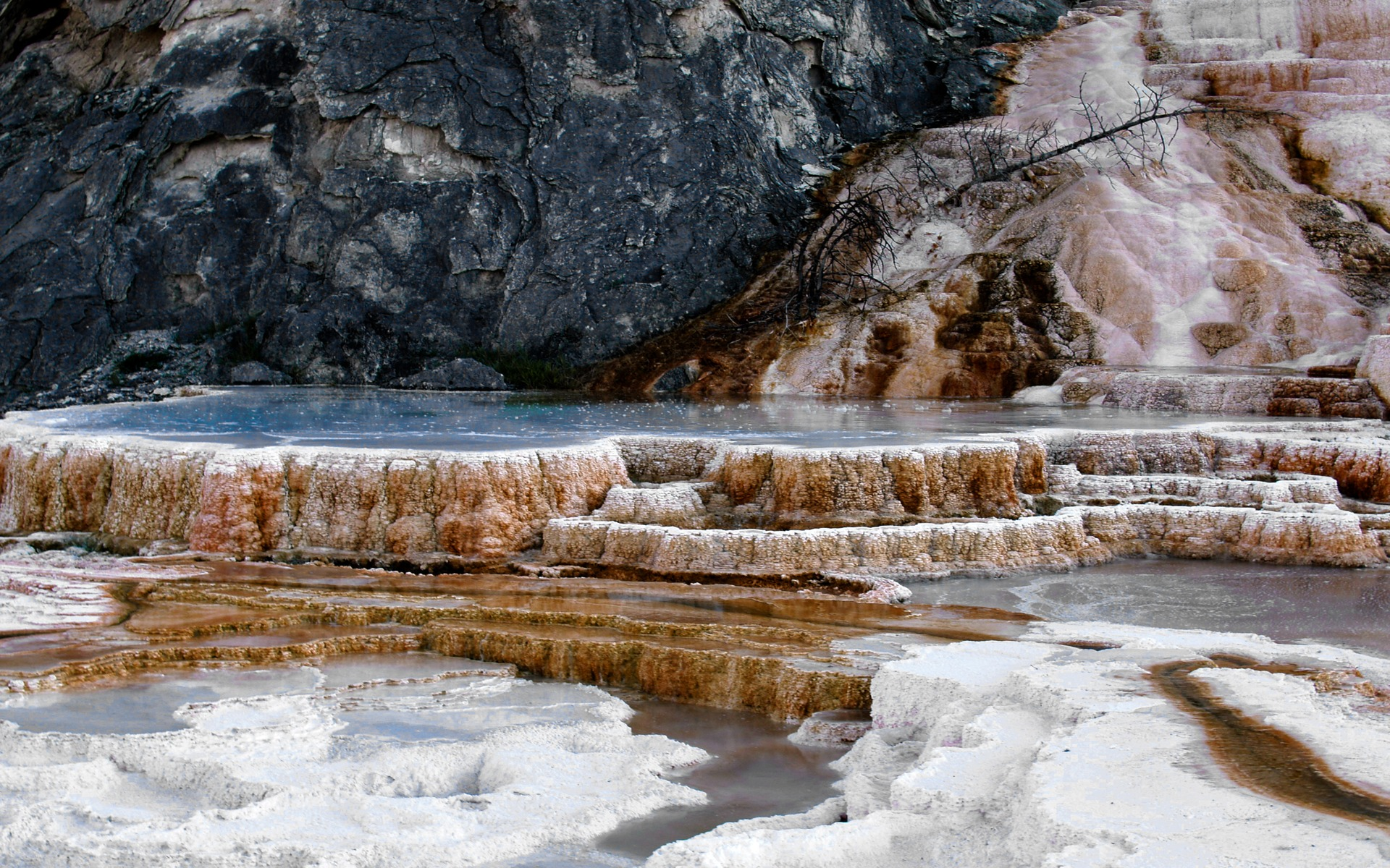 Terrace of travertine at Mammoth Hot Springs in Yellowstone National Park in Wyoming, USA.